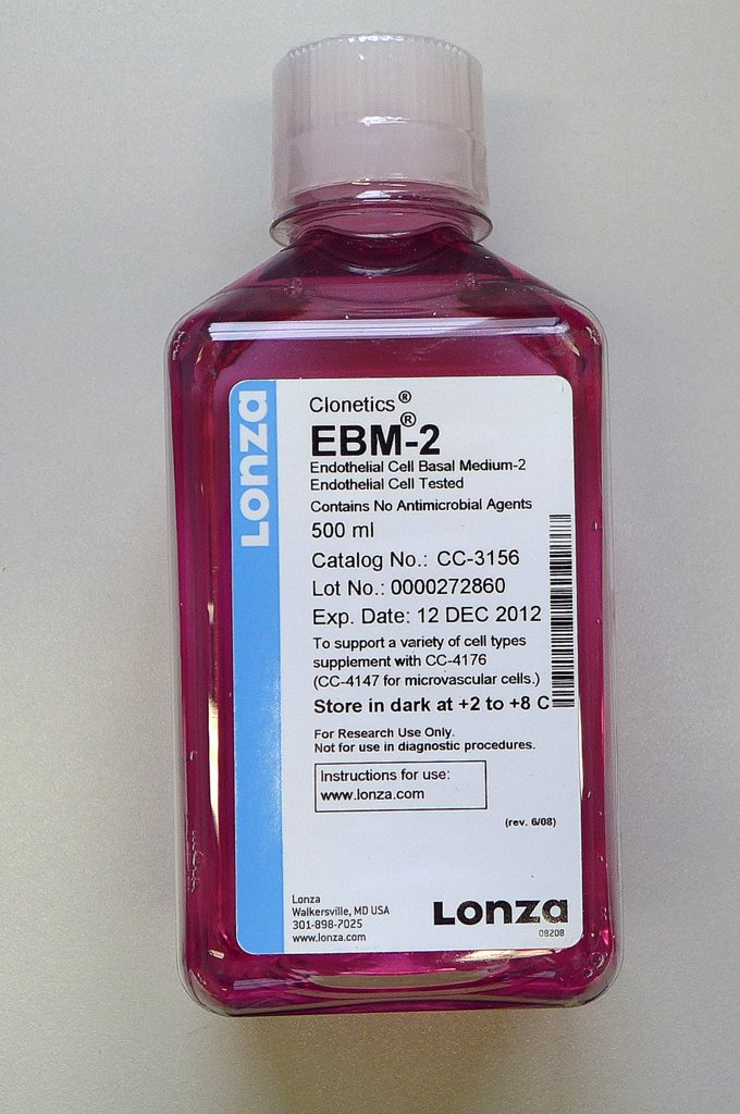 Lonza-EBM2-Medium